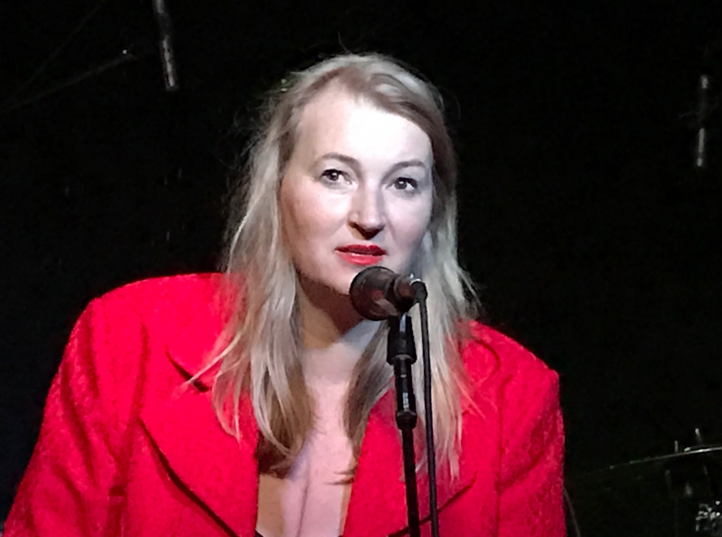 Anna Wilding speaking on stage at an American film and music festival in 2017